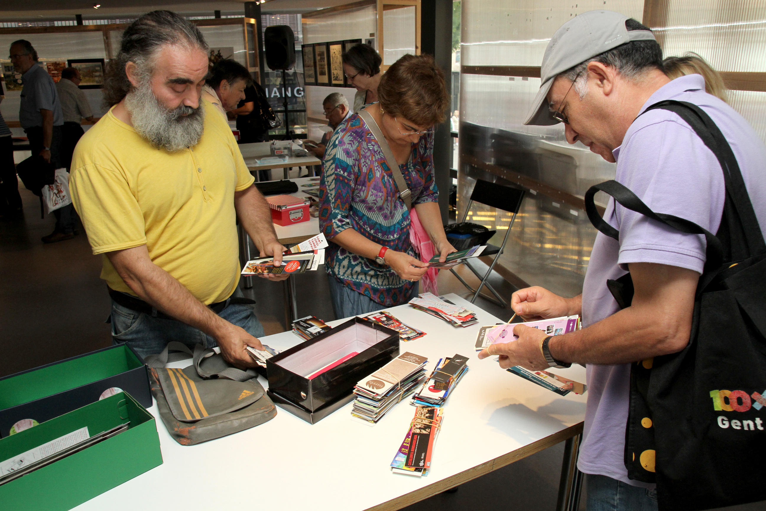 Bookmark barter.